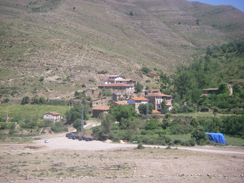 View of Velilla (La Rioja, Spain)